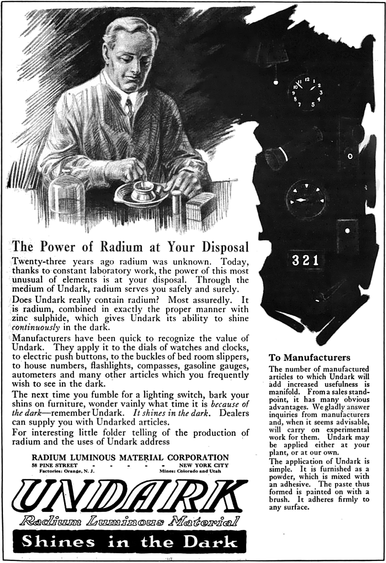 1921 magazine advertisement for Undark, a product of the Radium Luminous Material Corporation which was involved in the Radium Girls scandal. Retouched version